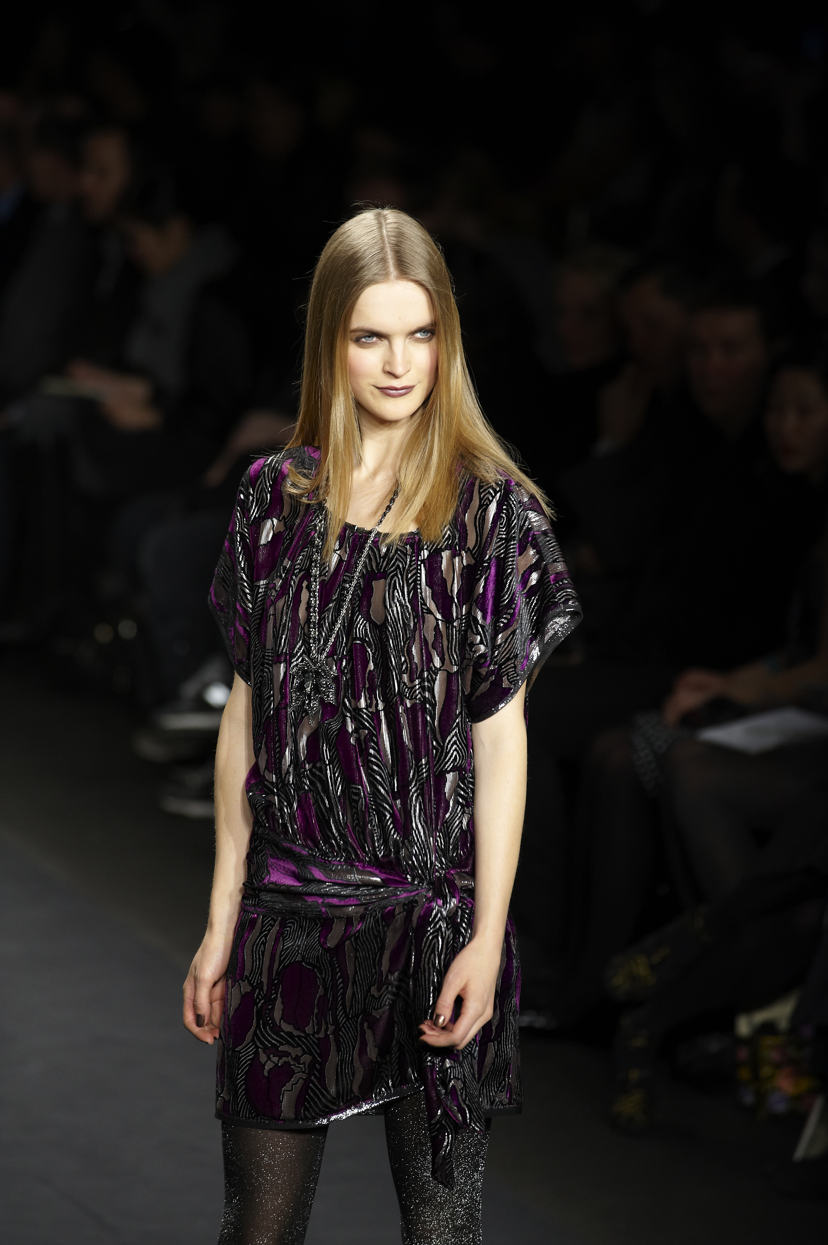 A model walks the runway at the Anna Sui Fall/Winter 2010 show at New York Fashion Week, February 2010.